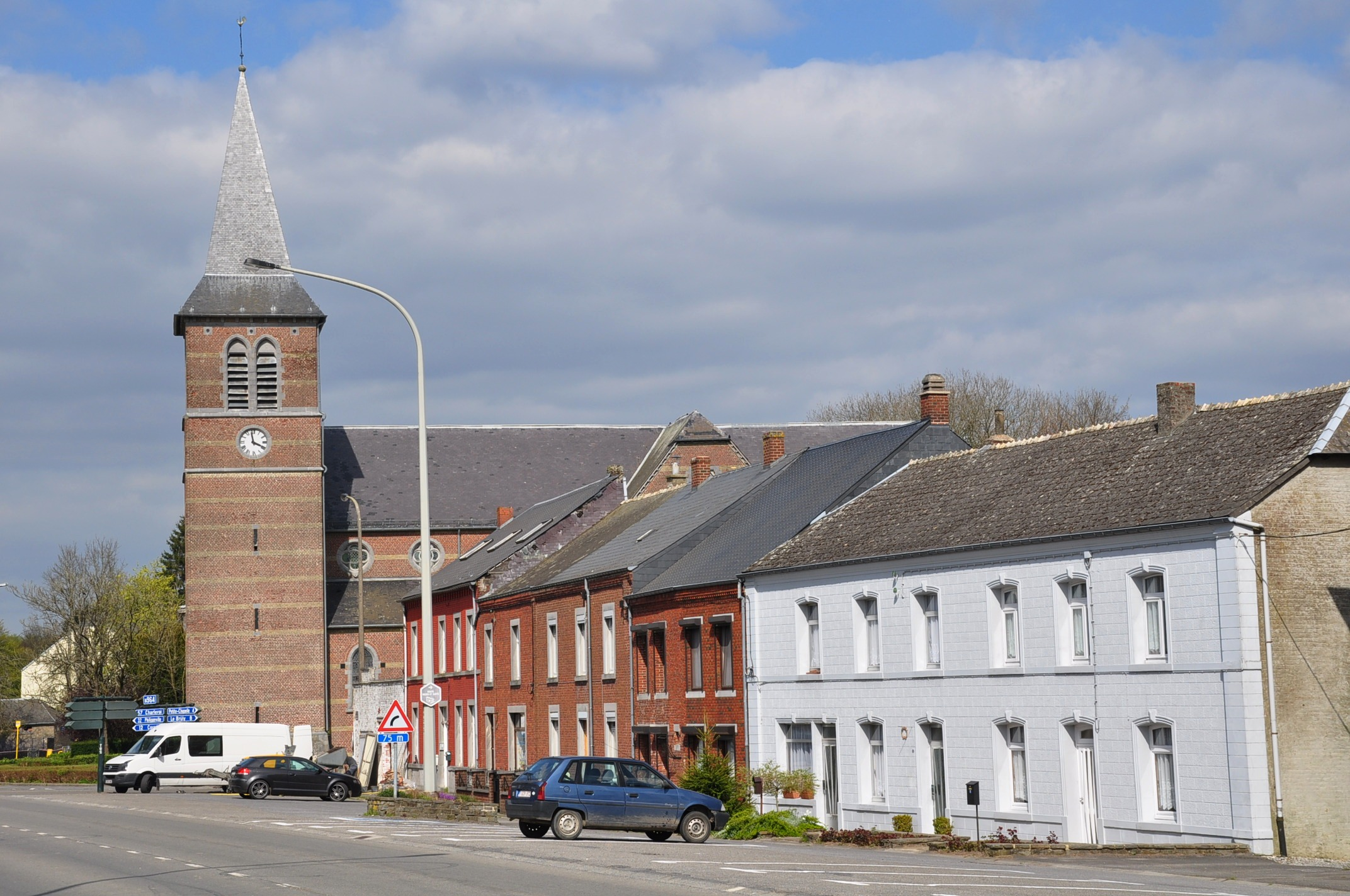 Main street in Cul-des-Sarts with the Saint Peter and Paul church (Couvin municipality, Namur Province, Belgium).